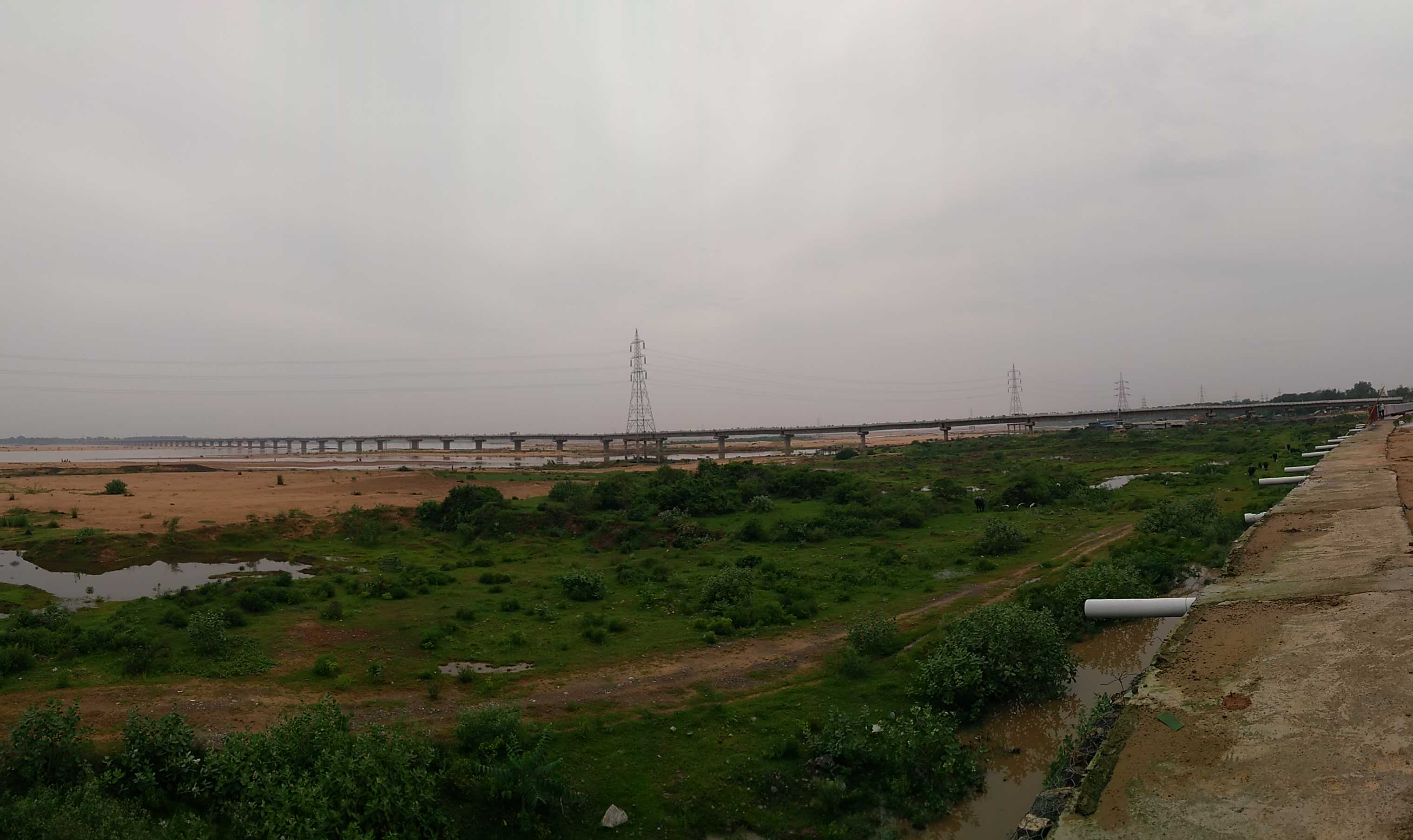 The second bridge connecting the twin cities of Cuttack and Bhubaneswar over the river Kathajodi is open for the public. The 2.88km long Cuttack-Trishulia bridge is the longest in the state and is named as Netaji Subhash Bose Setu. The bridge will reduce the distance between Cuttack and Bhubaneswar by almost 12 kms.